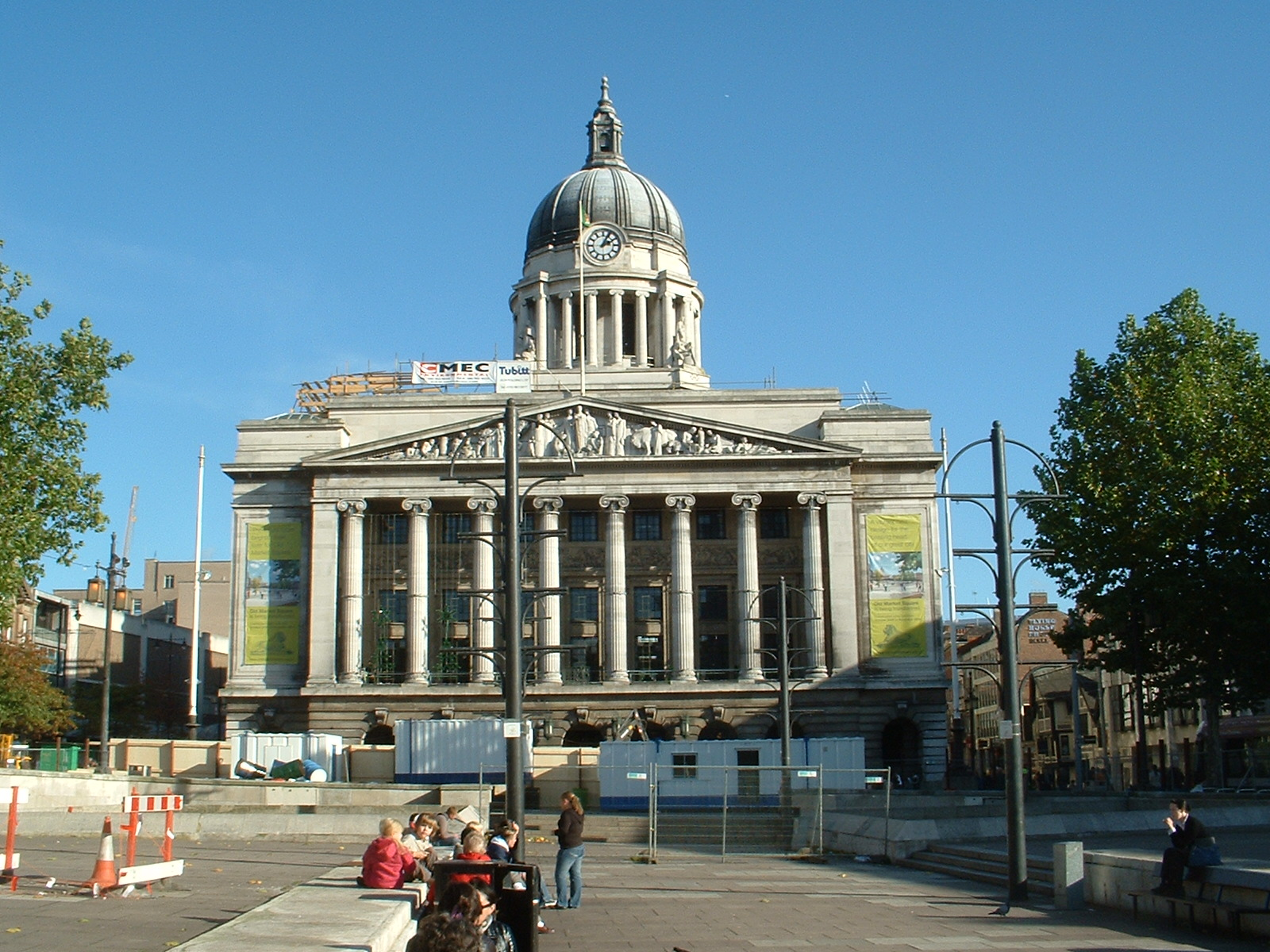 The Council House, Nottingham, England. Taken by Necrothesp, 25 October 2005.